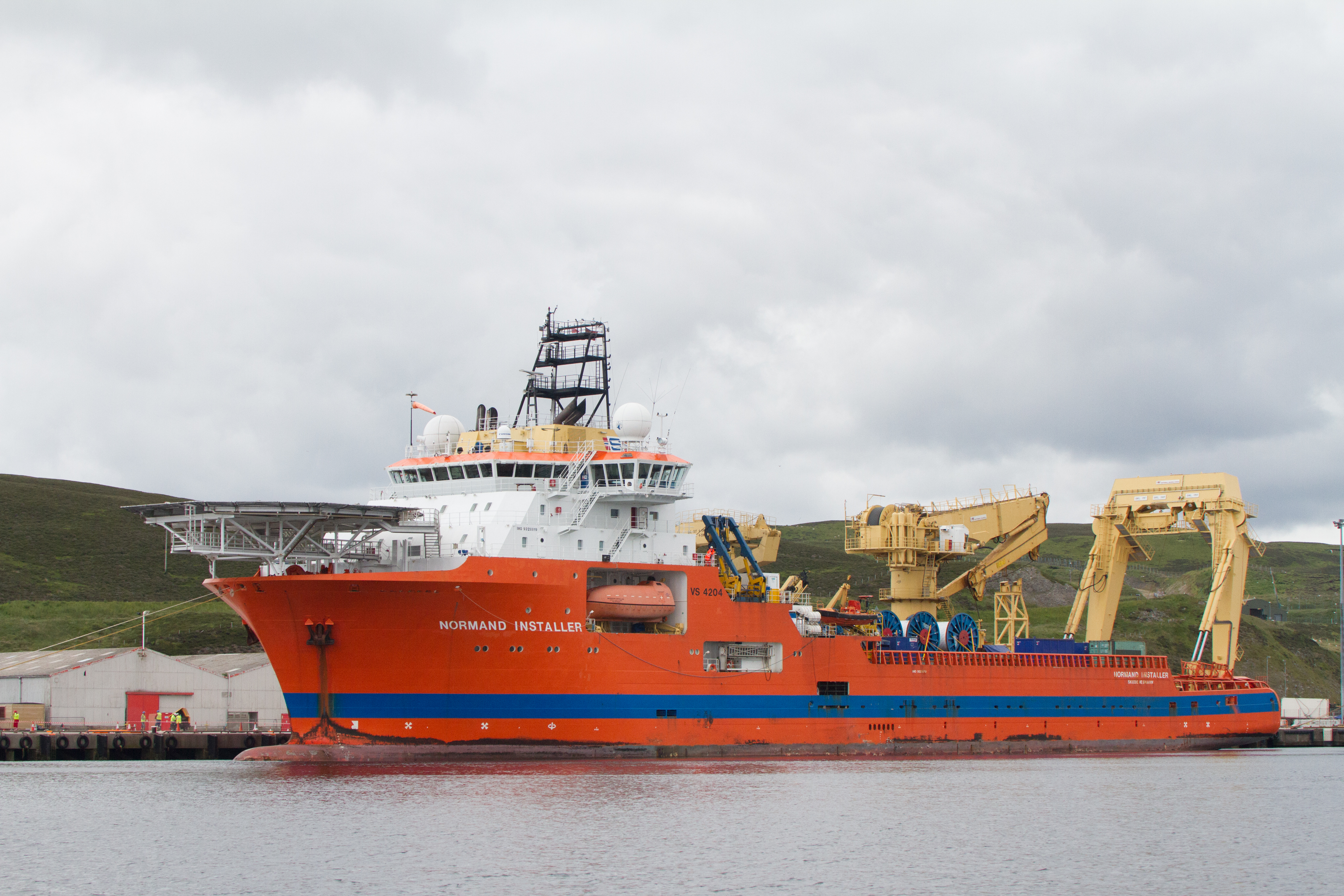 Multi Purpose Offshore Vessel Normand Installer